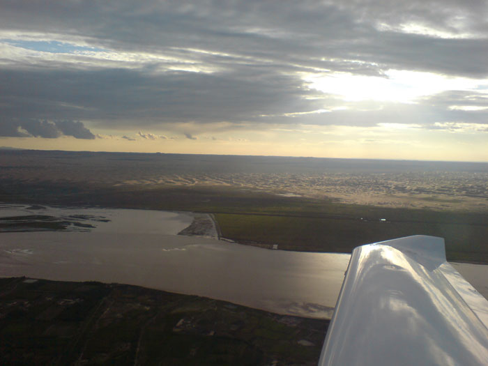 Western side of Wuhai, as seen from the air